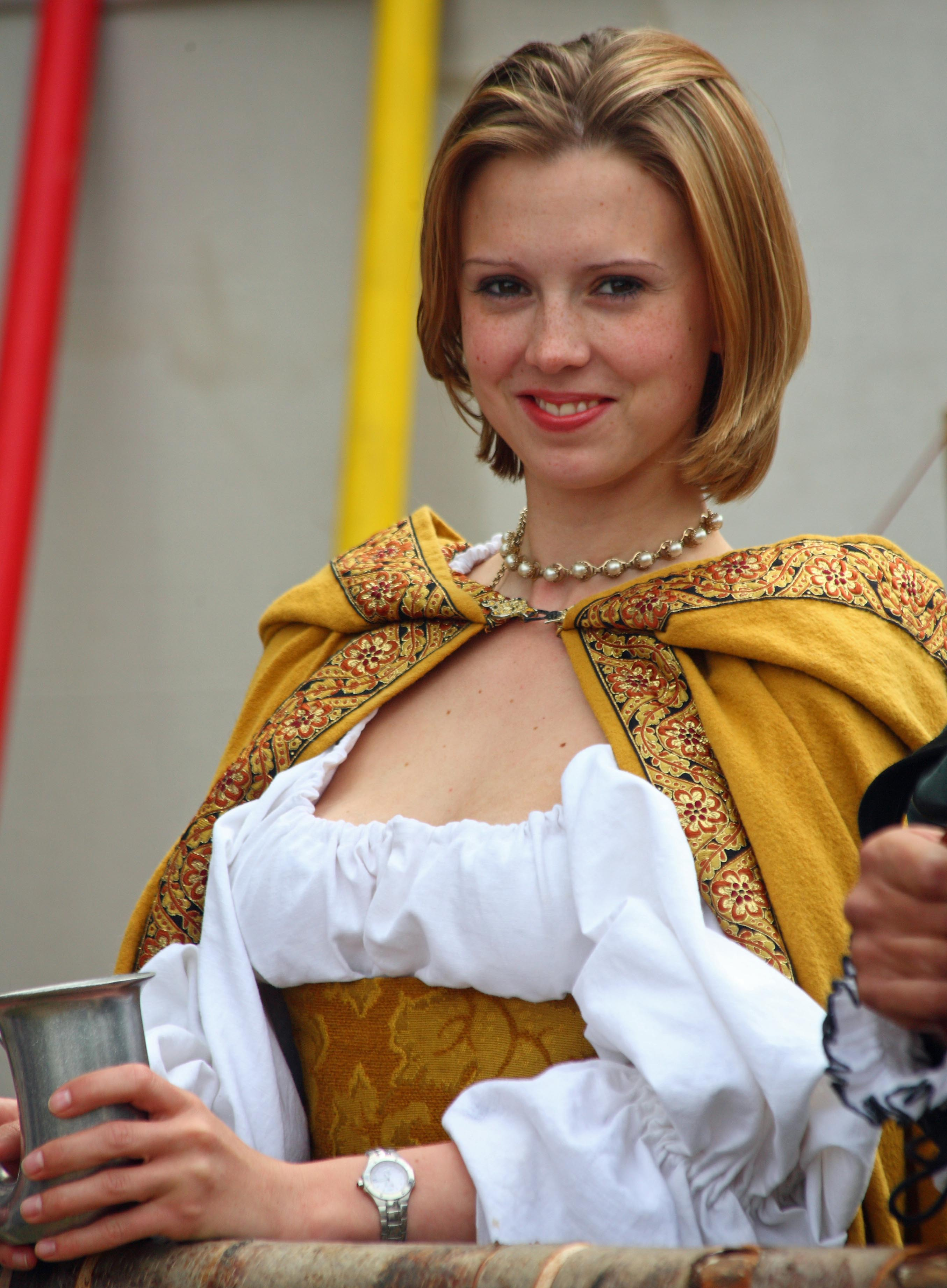 The Three Barons Renaissance Fair held in Anchorage, Alaska in June of each year; it's a nice little event with great people watching and a fair number of performers to entertain the New Agers - it's always worth a trip there to check it out! I took this photo on the first weekend of the Fair in June 2011.